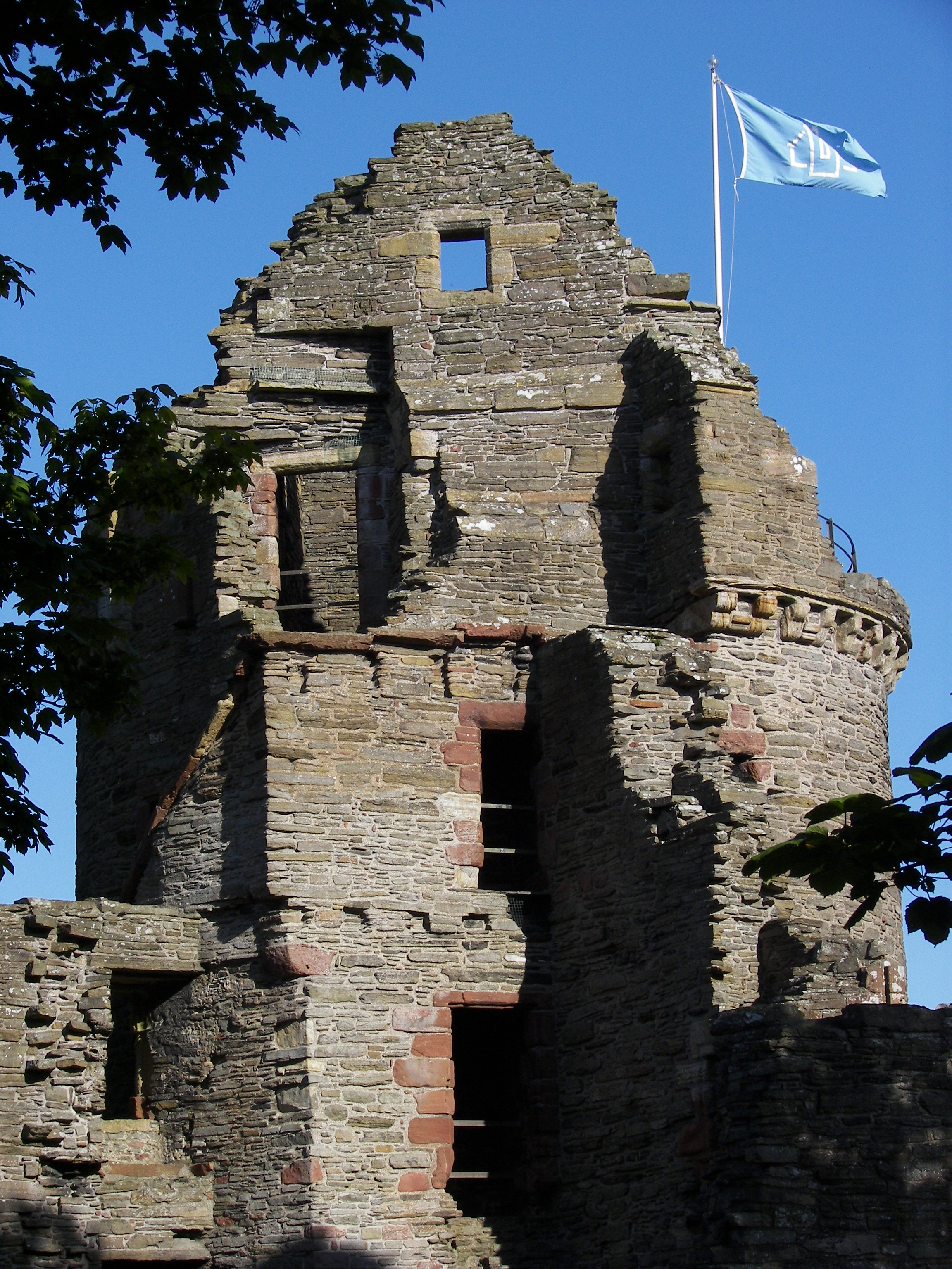 Earl's Palace in Kirkwall, Scotland.